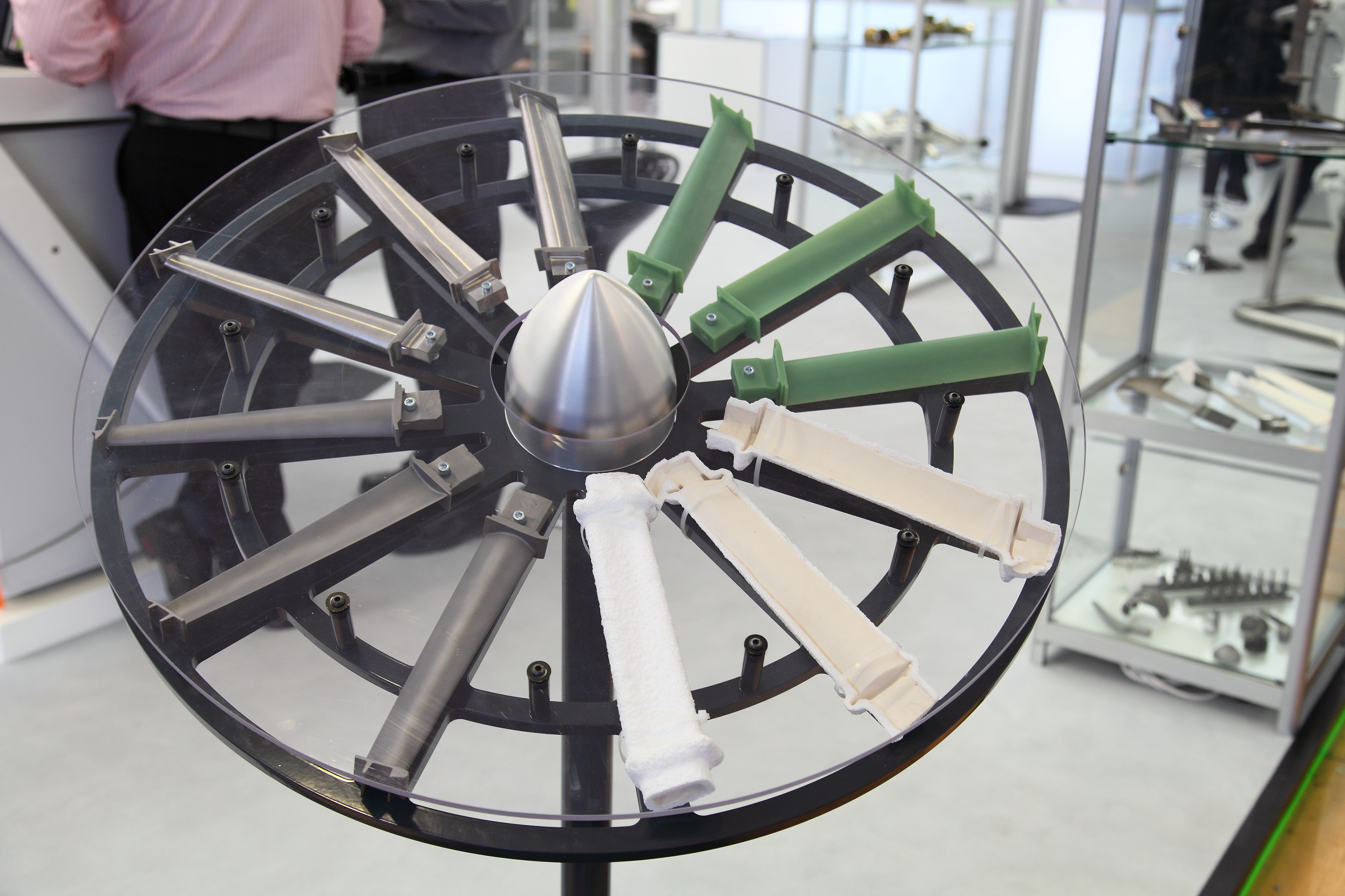 ILA Berlin Air Show 2012